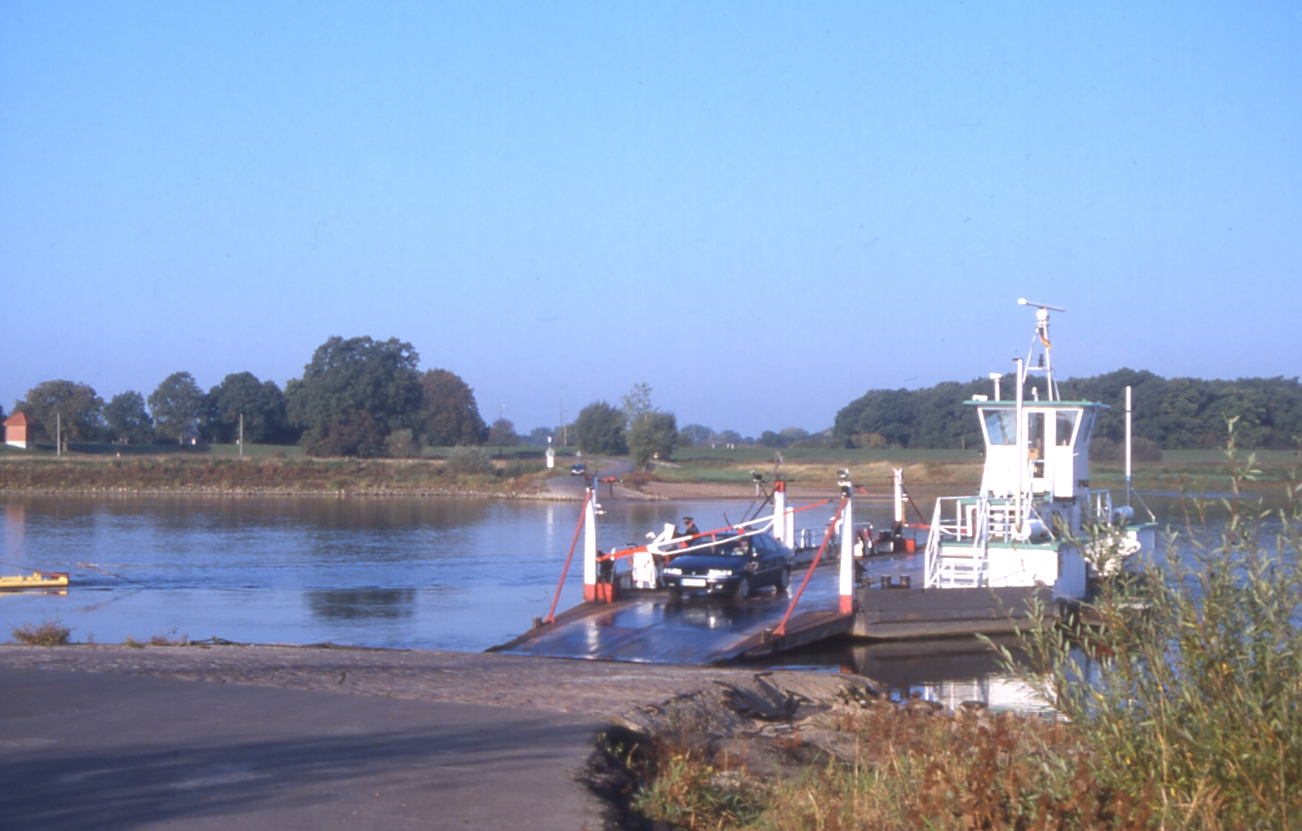 Drift-ferry on river Elbe north of Magdeburg, Germany